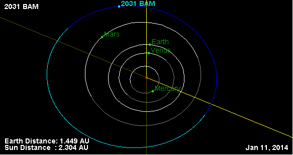 This diagram illustrates the orbit of the Main-belt asteroid 2031 BAM.